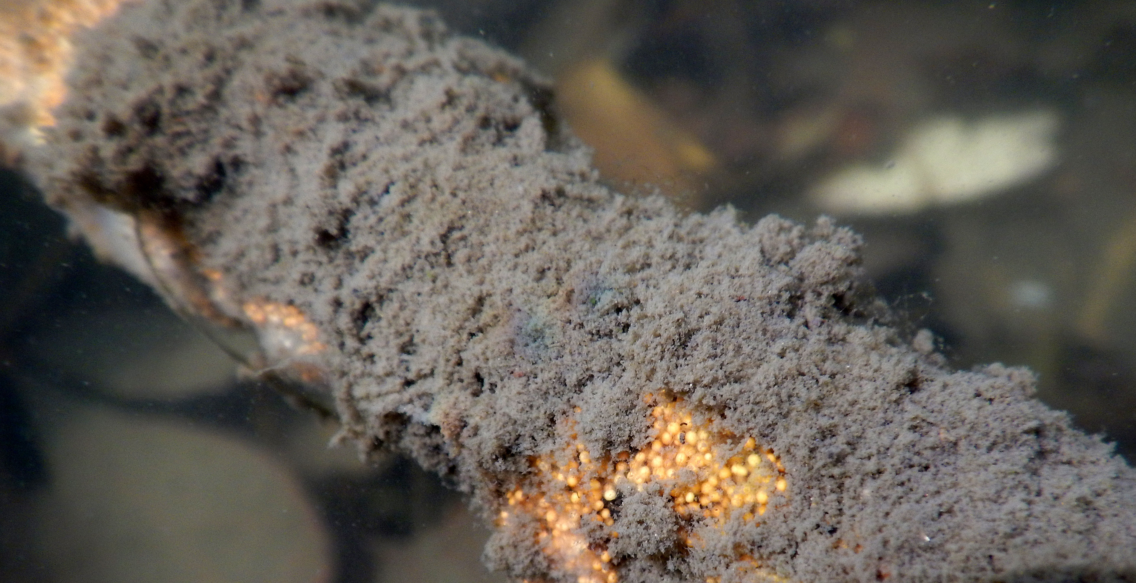 Gemmules of the freshwater sponge Spongilla lacustris (here in northern France) = resistant form of metabolic dormancy and appear in autumn.